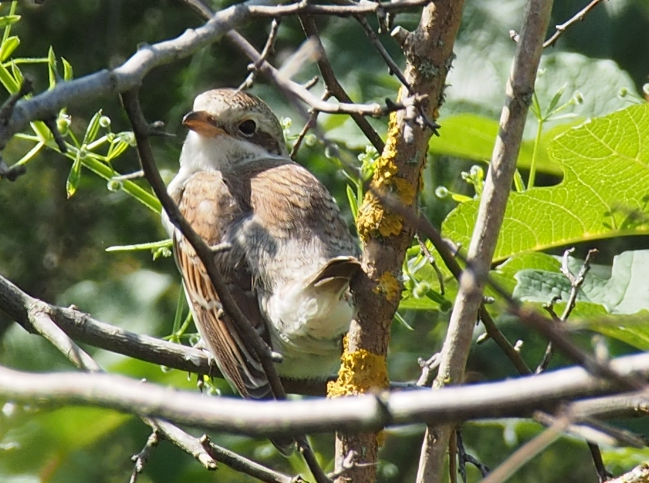 Red-backed shrike - Lanius collurio (juvenile) "Southern Heath Nature Park", Germany